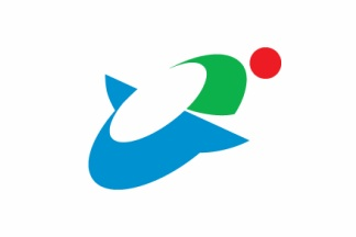 Flag of Yokoshibahikari Chiba